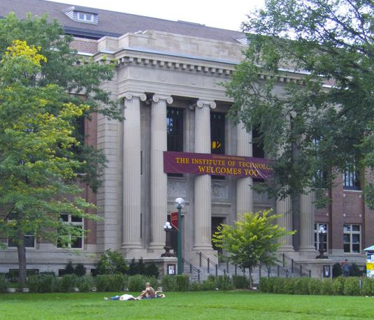 Walter Library, University of Minnesota, Twin CitiesImage has been cropped.